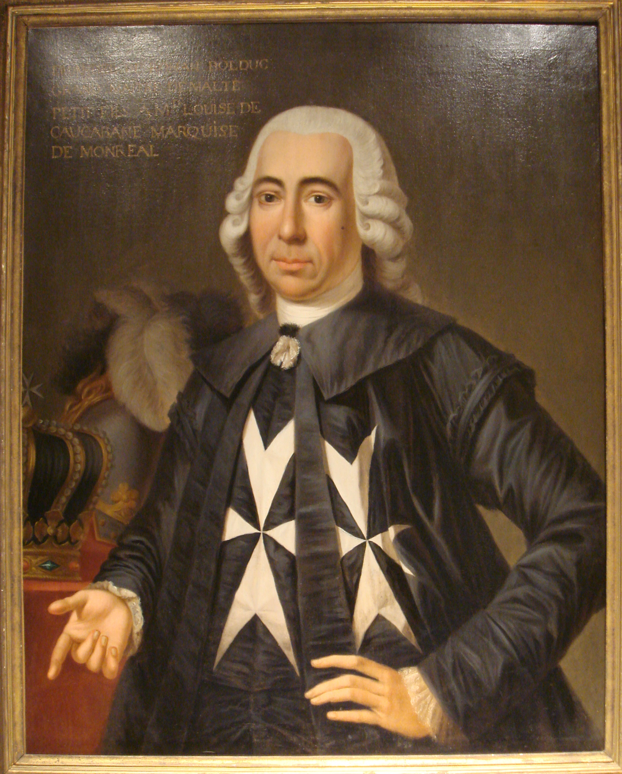 Portrait of Emmanuel de Rohan-Polduc (1725-1797)